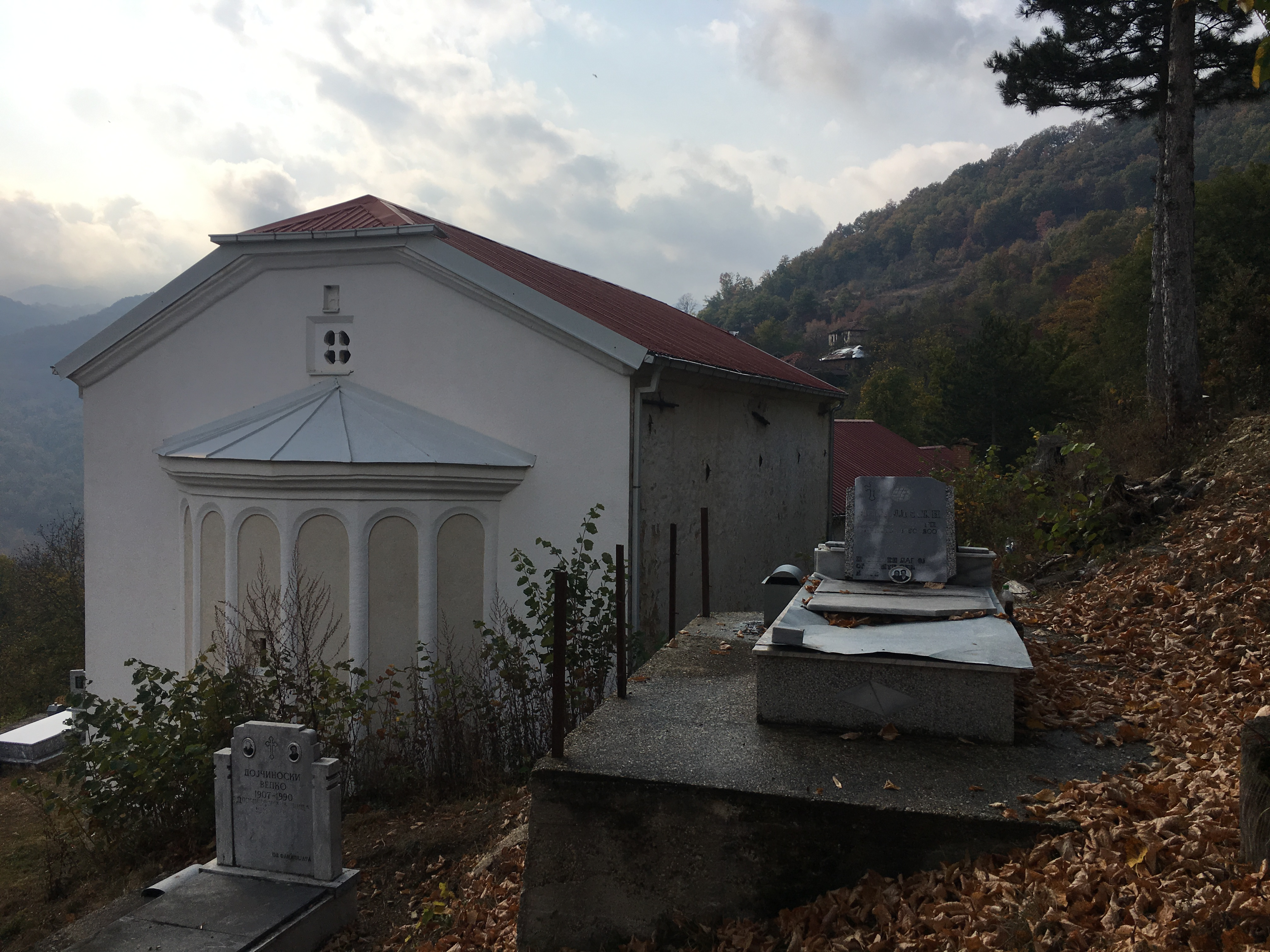 Wikiexpedition to Kopačka